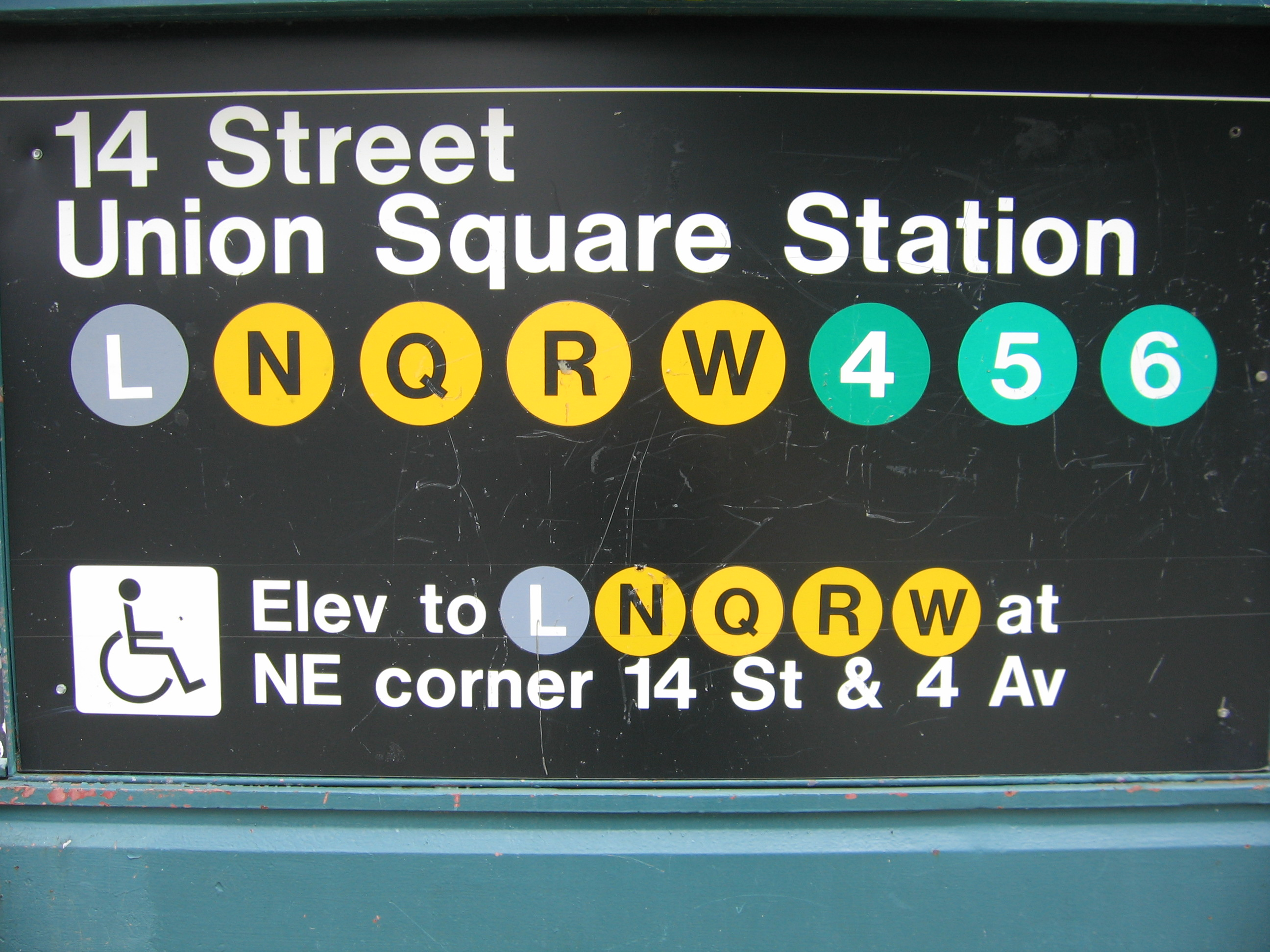 en:14th Street-Union Square (New York City Subway) station street sign.